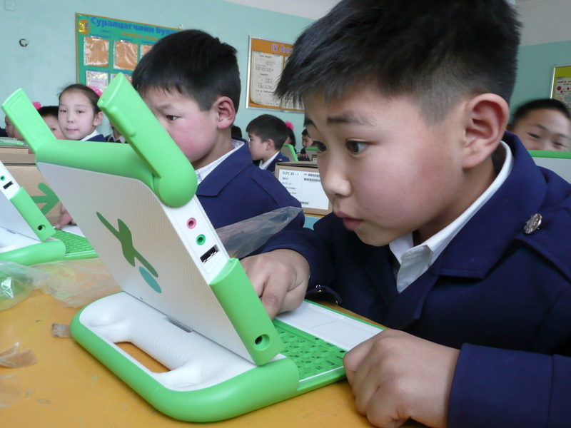 A photo series from Carla Gomez Monroy in the capital of Mongolia; Ulaanbaatar. OLPC is currently deploying 20,000 laptops to Mongolia. The laptops were funded by the generosity of doners during the Give One, Get One program of late 2007. Photos taken before January, 2007.